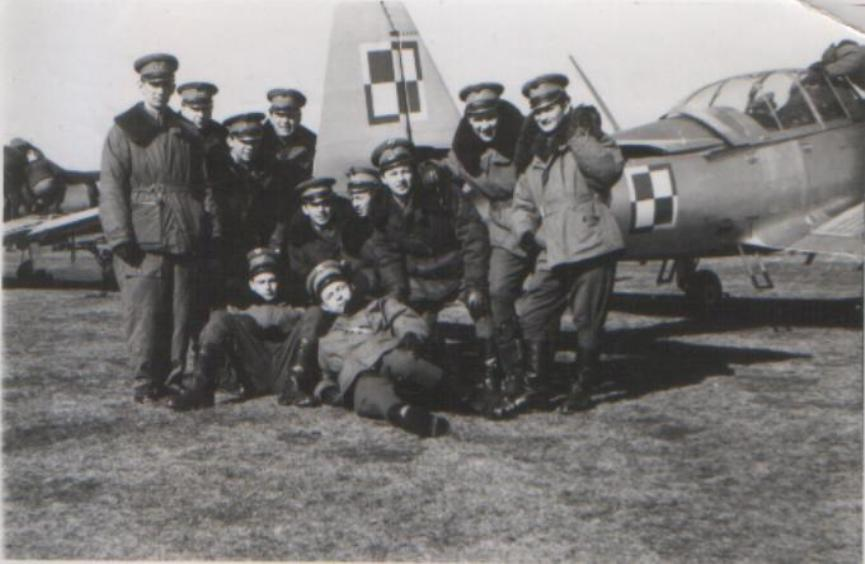 Piloci 64 LPS na lotnisku w Sierakowie, 1958